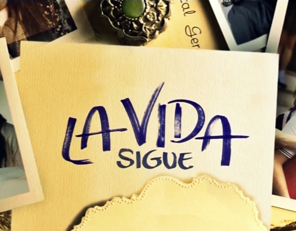 Logo de una telesérie